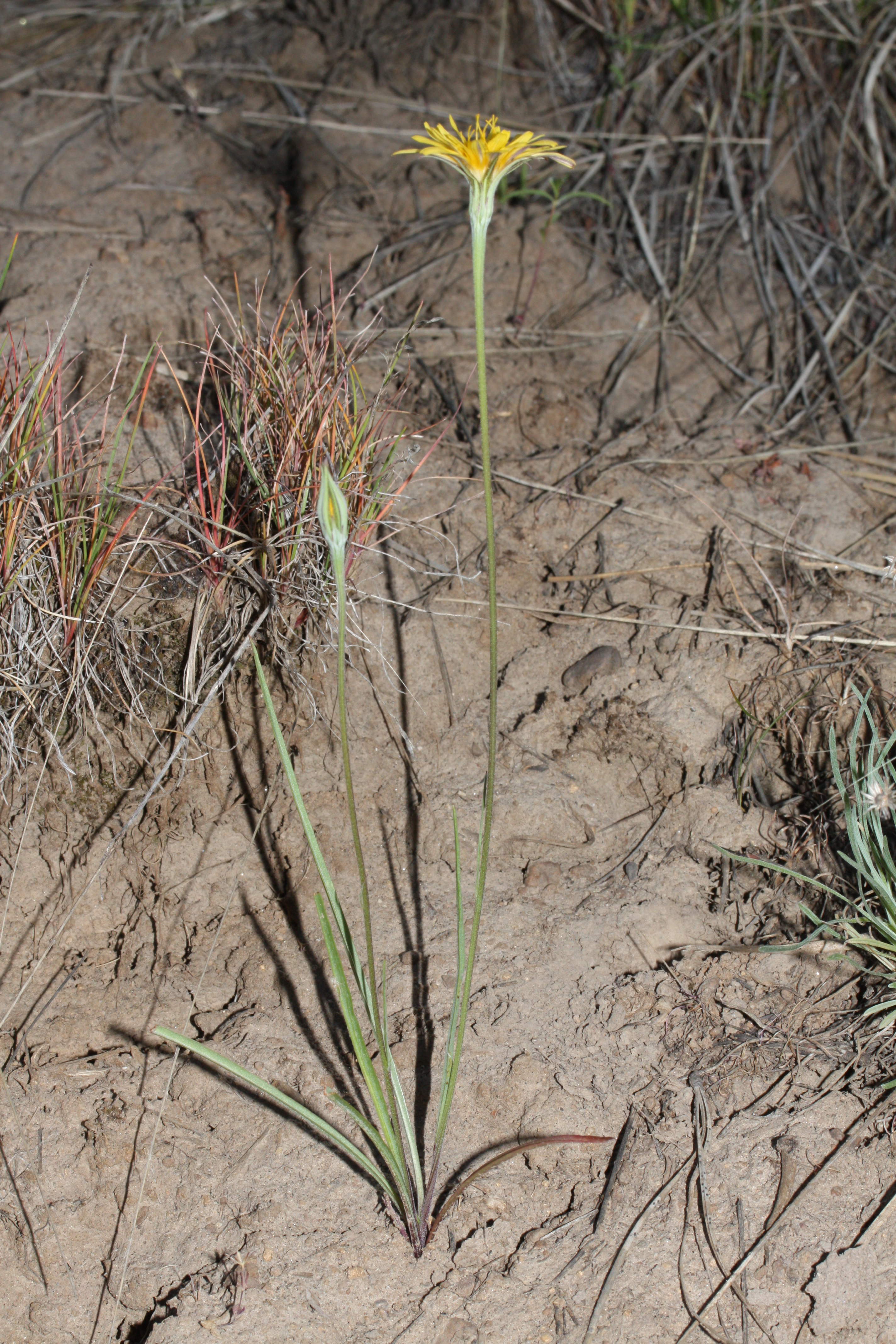 Nodding Microseris, Nodding Scorzonella, Nodding Silverpuffs